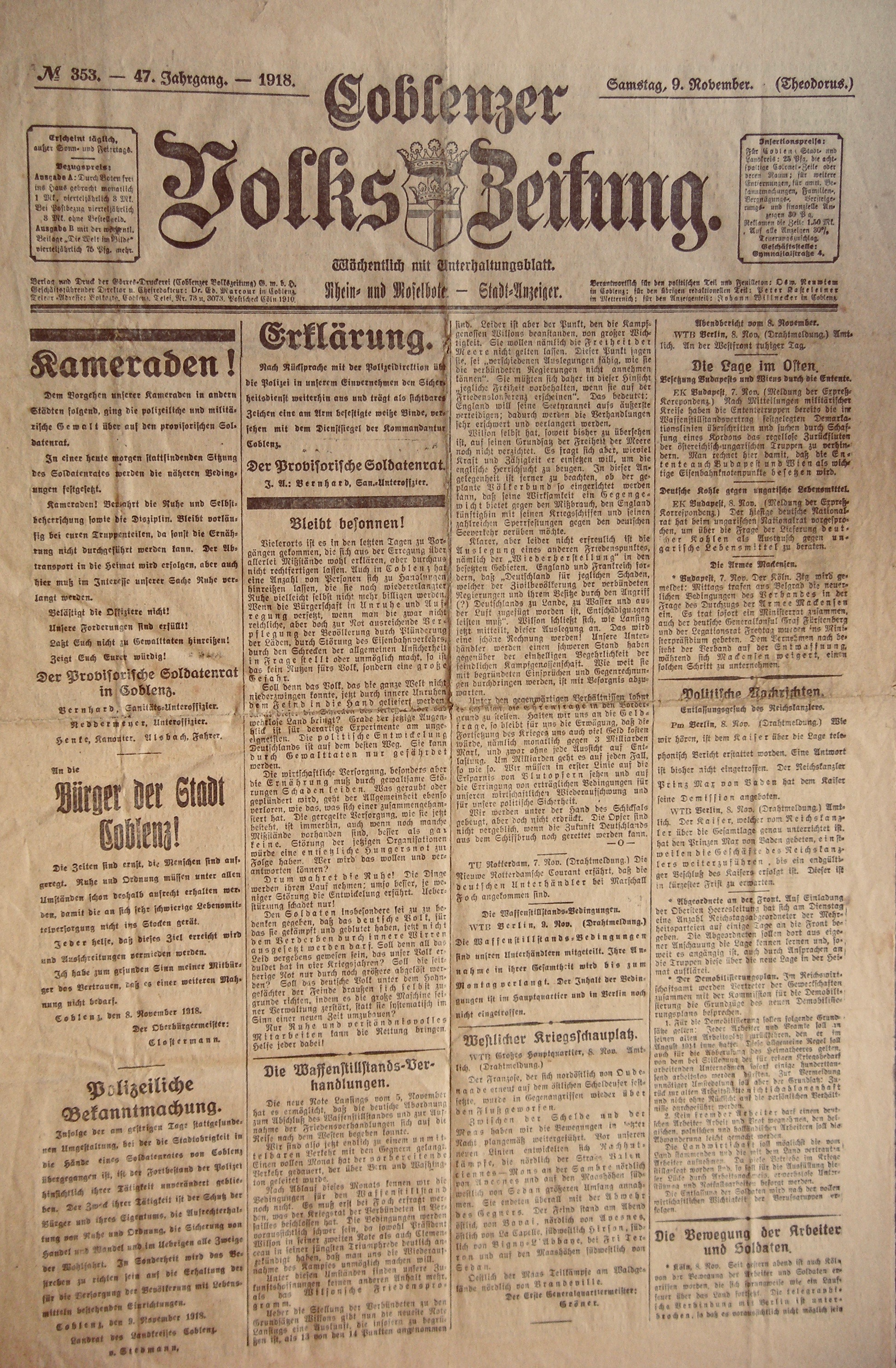 Titelseite der Coblenzer Volkszeitung (einer früheren tageszeitung aus Koblenz) vom 09.11.1918 mit Meldungen über die Machtübernahme des arbeiter- und Soldatenrats und das nahe Kriegsende